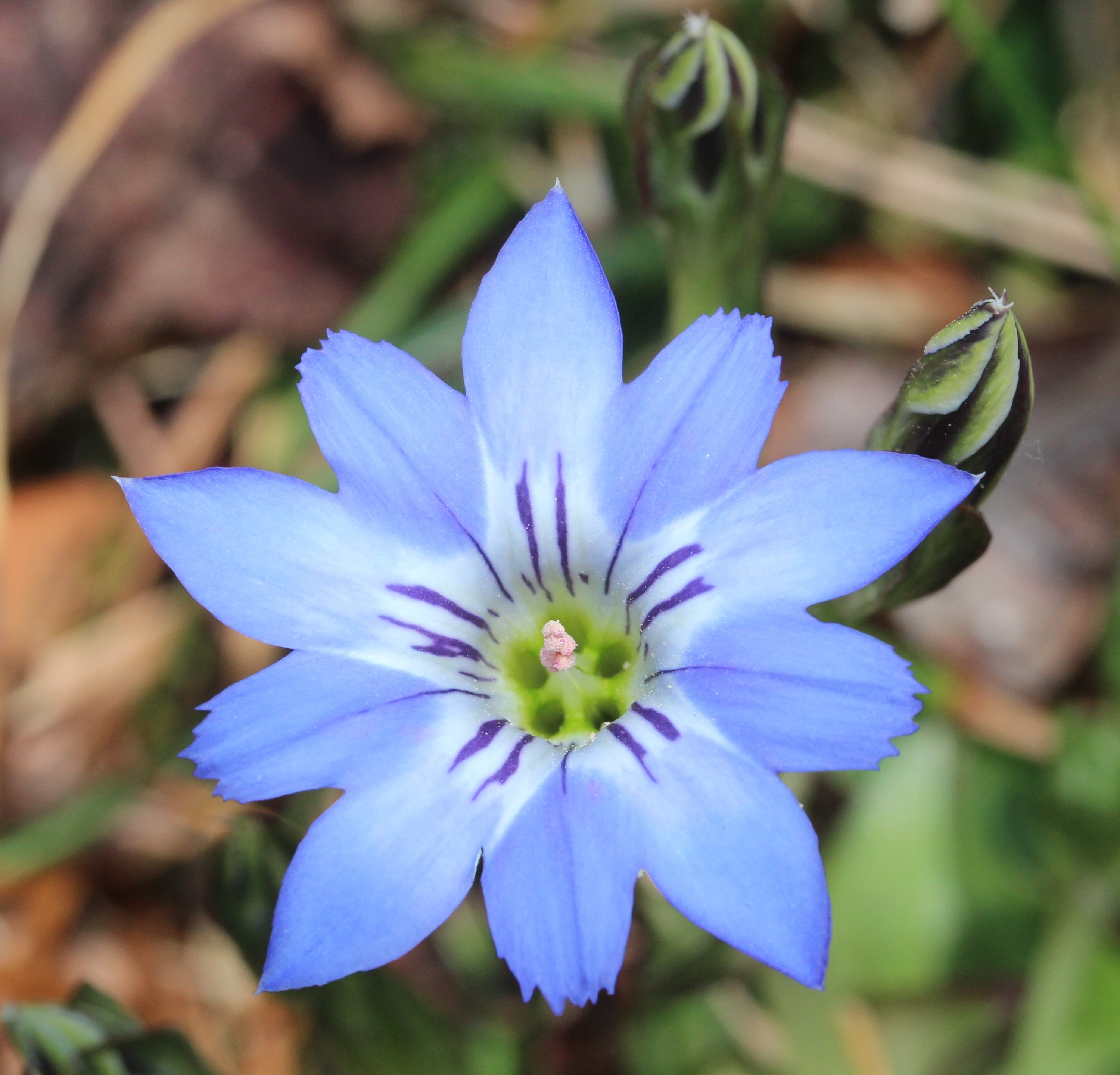 Gentiana thunbergii in Kasugai, Aichi, Japan.